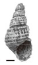 Black-ang white photo of an apertural view of the shell of Margarya monodi Dautzenberg & H. Fischer, 1905 (synonym: Margarya elongata) (holotype, IOZ-FG00074), Lake Dianchi. Scale bar is 1 cm.